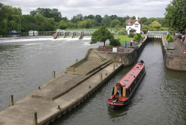 Goring Lock An overall view of picturesque Goring Lock and its associate weir.